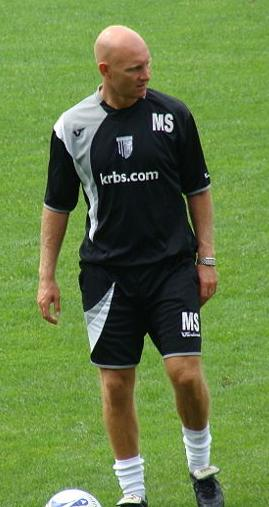 Cropped from :Image:Mark Stimson doing trainging.JPG